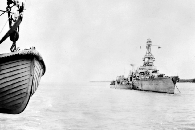 The U.S. Navy Northampton-class heavy cruiser USS Houston (CA-30) and the Clemson-class destroyer USS Peary (DD-226) at Darwin, Northern Territories (Australia), in February 1942. Houston departed Darwin on 15 February 1942 with a small convoy to reinforce the garrison on Timor and was not present when Japanese aircraft raided Darwin four days later. The photo was takten from the Australian Bathurst-class Corvette, HMAS Warrnambool (J202).